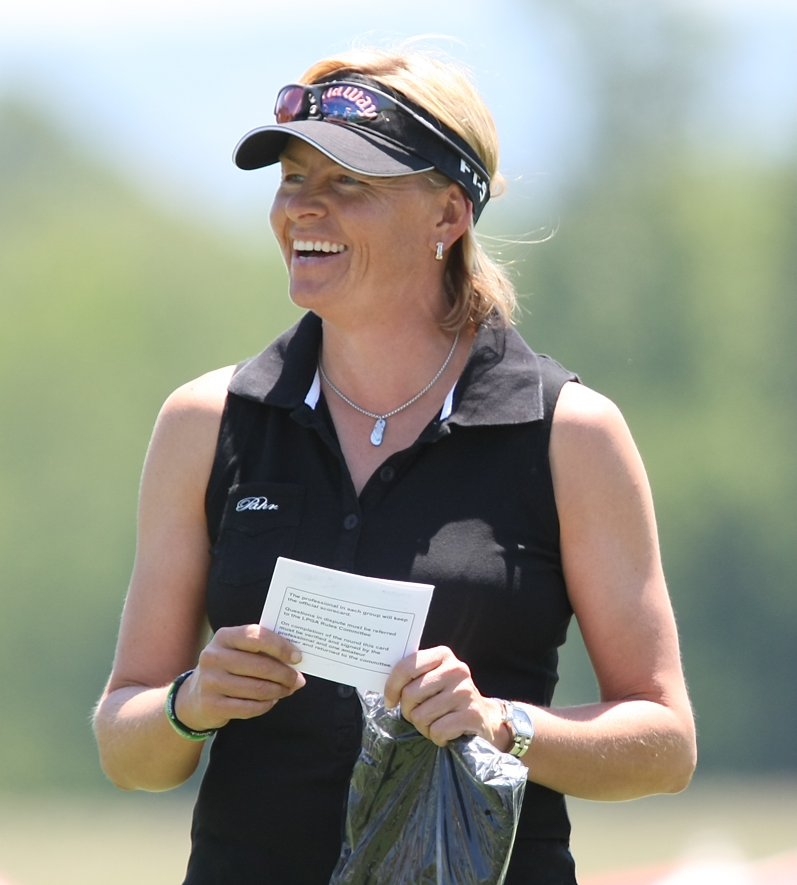 HAVRE DE GRACE, MD - JUNE 02: Liselotte Neumann (SWE) during pro-am before 2008 LPGA Championship held at Bulle Rock Golf Course, on June 2, 2008 in Havre de Grace, Maryland. (Photo by Keith Allison) HAVRE DE GRACE, MD - JUNE 02: Liselotte Neumann (SWE) during pro-am before 2008 LPGA Championship held at Bulle Rock Golf Course, on June 2, 2008 in Havre de Grace, Maryland. (Photo by Keith Allison)